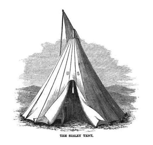 "The Sibley Tent", p. 143, illustrator not known.